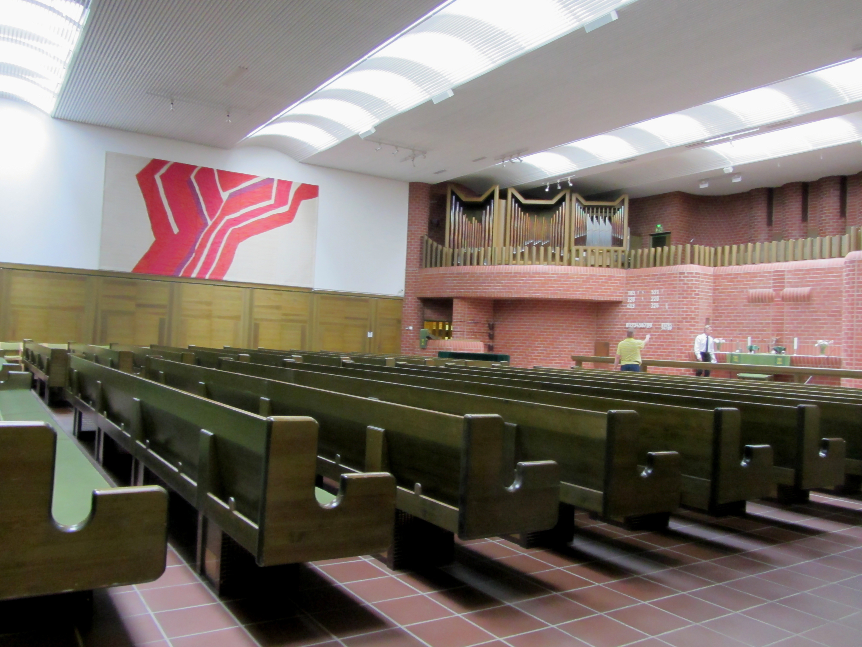 Interior of Hervanta Church